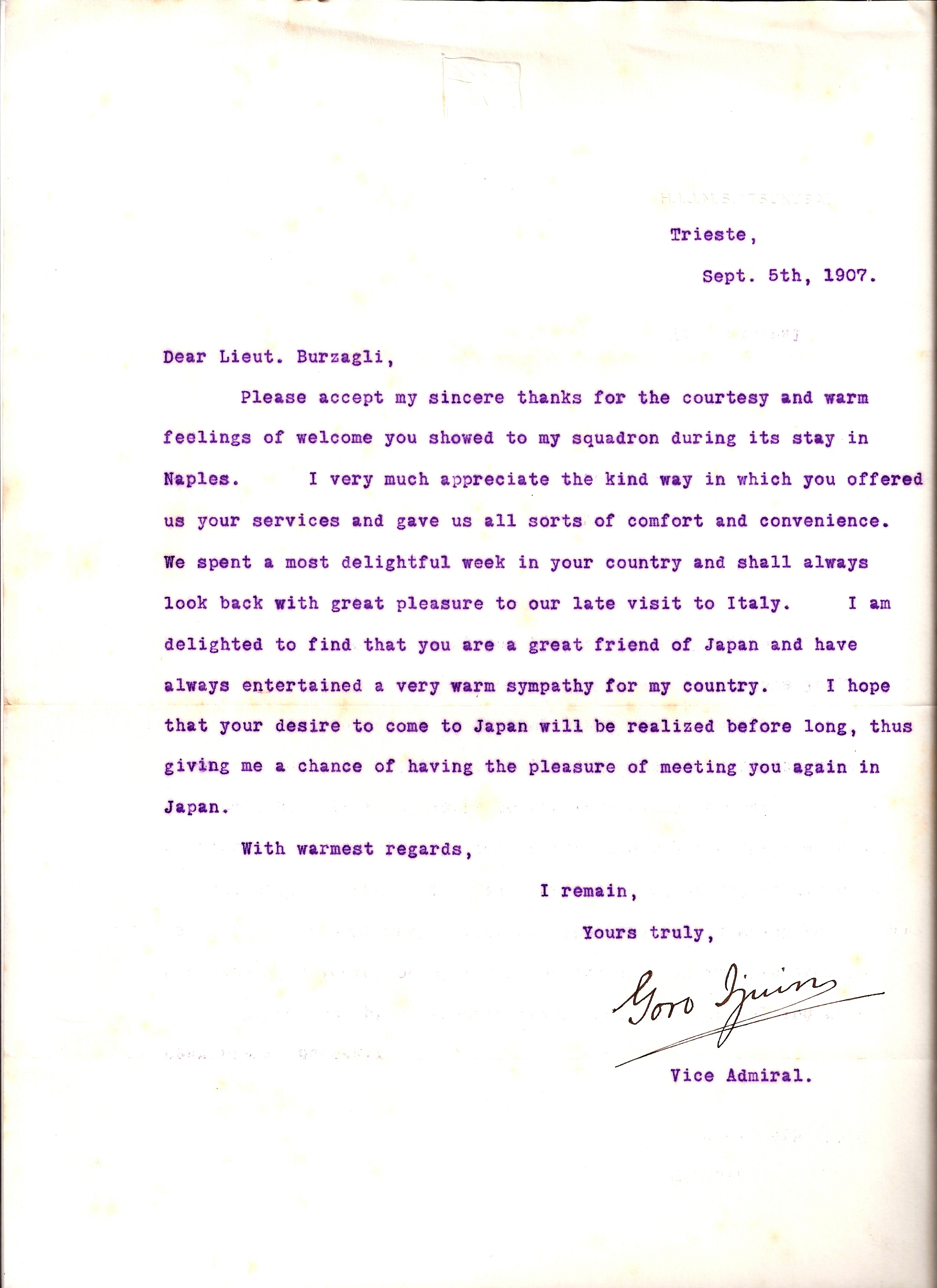 Letter from Imperial Japanese Navy Vice Admiral Ijuin Gorō (伊集院五郎) to Lieutenant Ernesto Burzagli